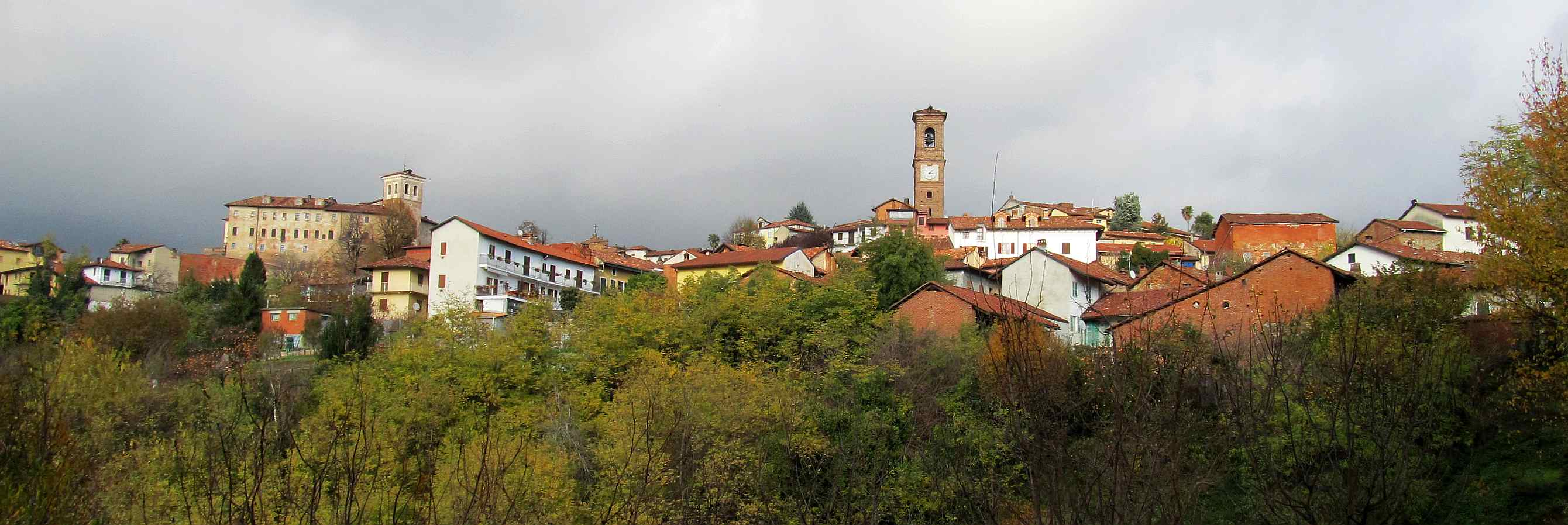 Moncucco Torinese (AT, Italy): panorama